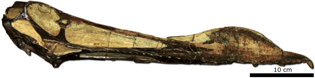 Anhanguera blittersdorffi holotype (MN 4805-V) in lateral view.